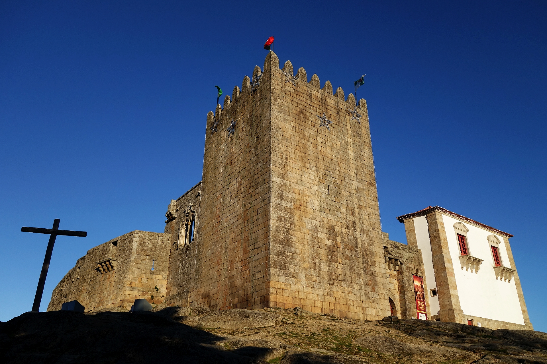 Originally built by order of king Afonso III around 1250, on a site occupied at least since Roman times, the castle became the seat of the Cabral family (of which navigator Pedro Alvares Cabral was the most famous member) from 1398 to 1762. By the end of the 19th century it was a ruin, but has in recent years been revitalised as a tourist attraction.